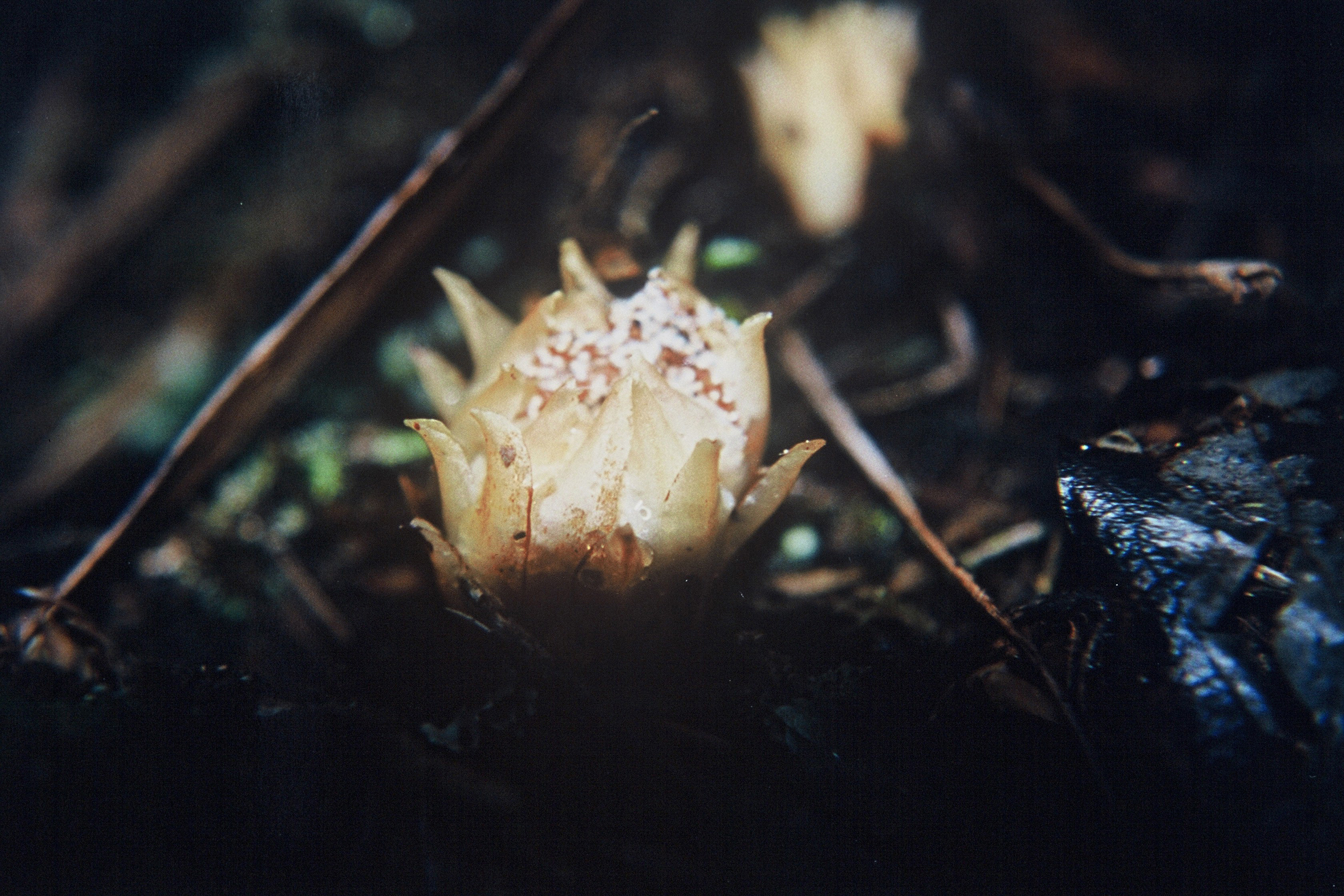 Dactylanthus taylorii in flower. Permission supplied with image: “All DOC images are available under Crown copyright and licensed for reuse under Creative Commons Attribution 4.0 so just credit Department of Conservation.” —Laura Honey, Web Communications Advisor, DOC, 29 Feb 2016